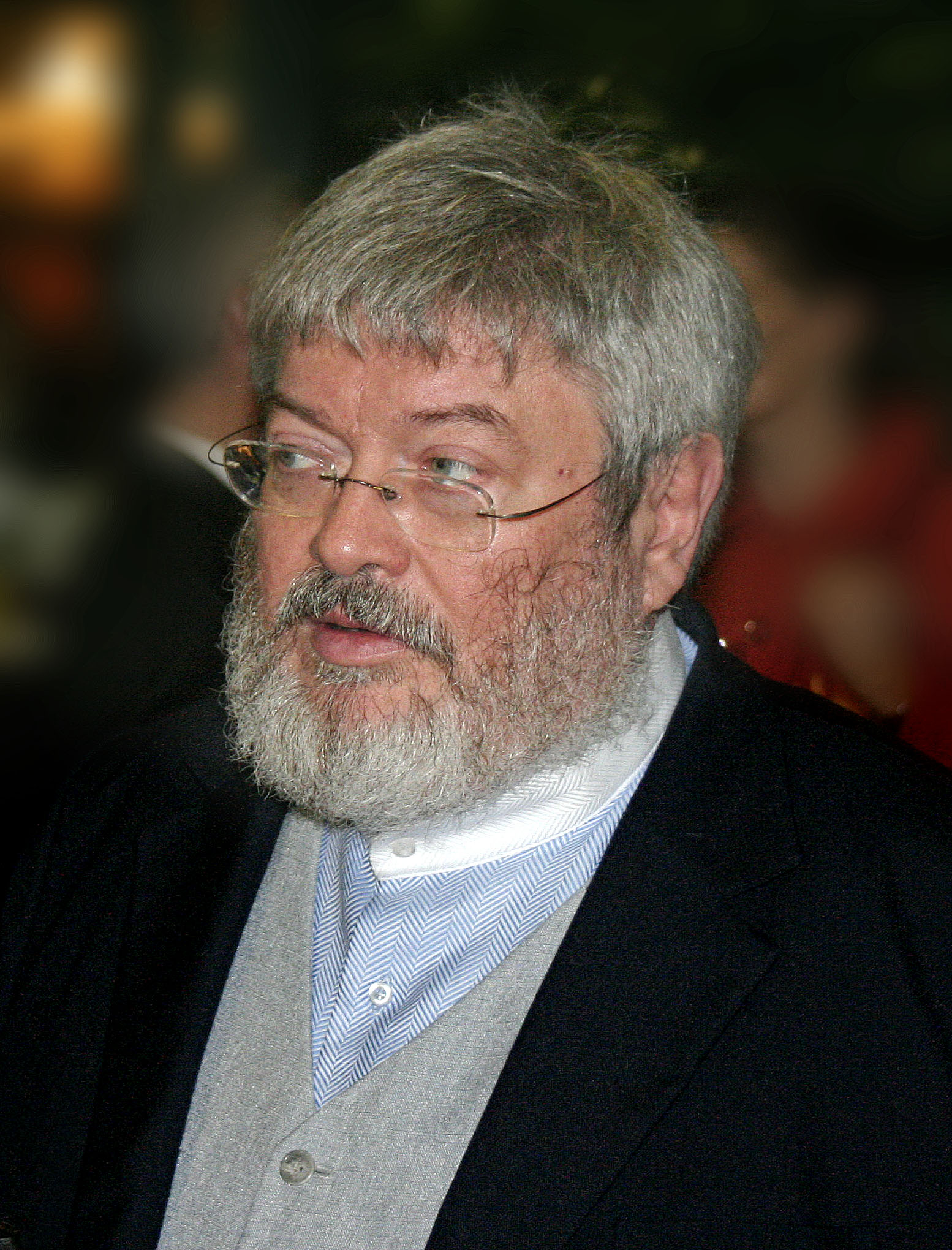 Geza Szőcs (poet) - Transylvanian Hungarian politician